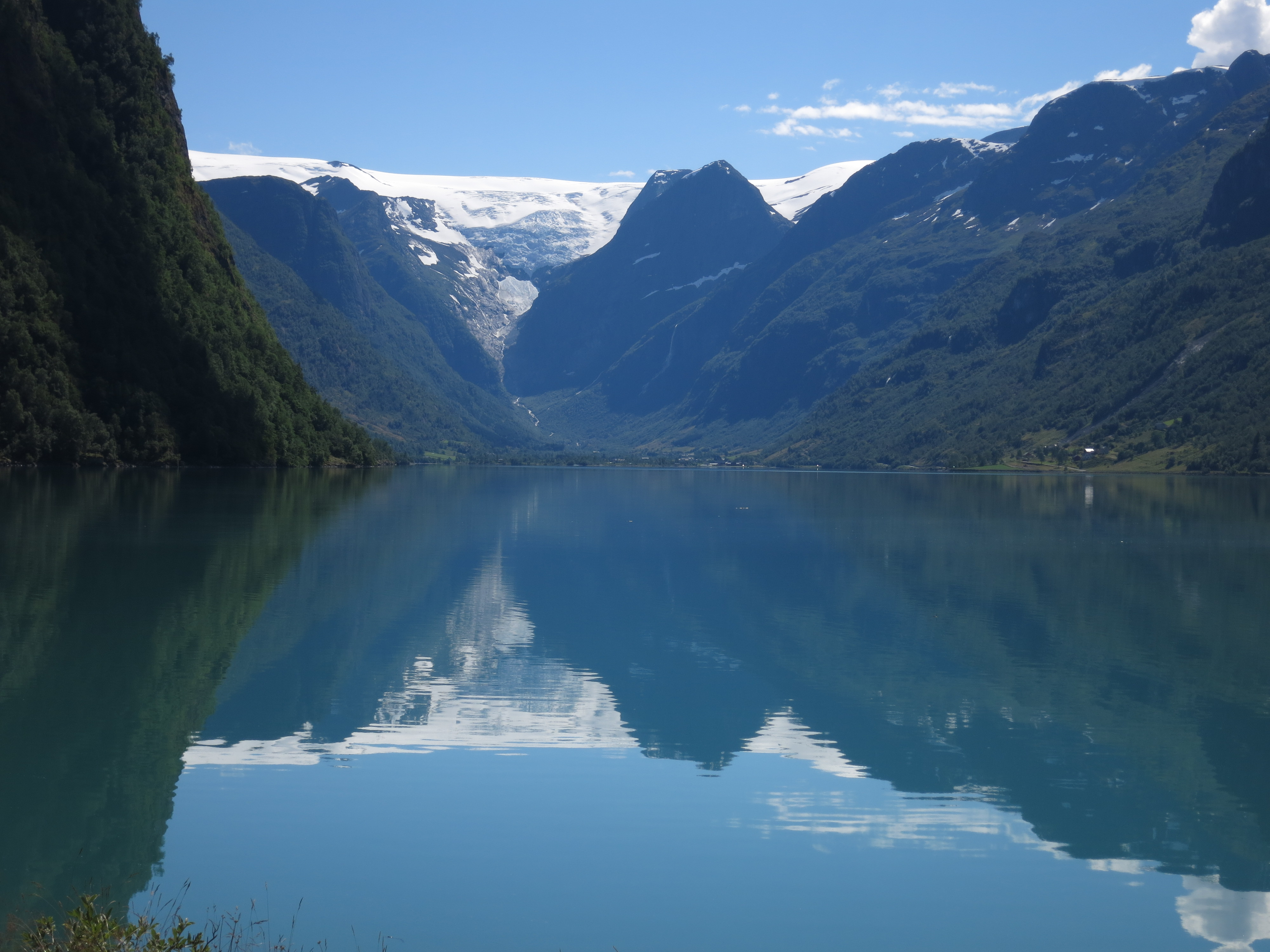 Lake Oldevatnet Sør and Jostedalsbreen